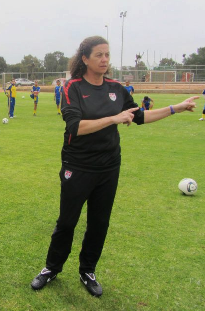 Coach Lesle Gallimore shares a game strategy with a group of Moroccan players for the Empowering Women and Girls Through Sports in Morocco program on behalf of the US Department of State.